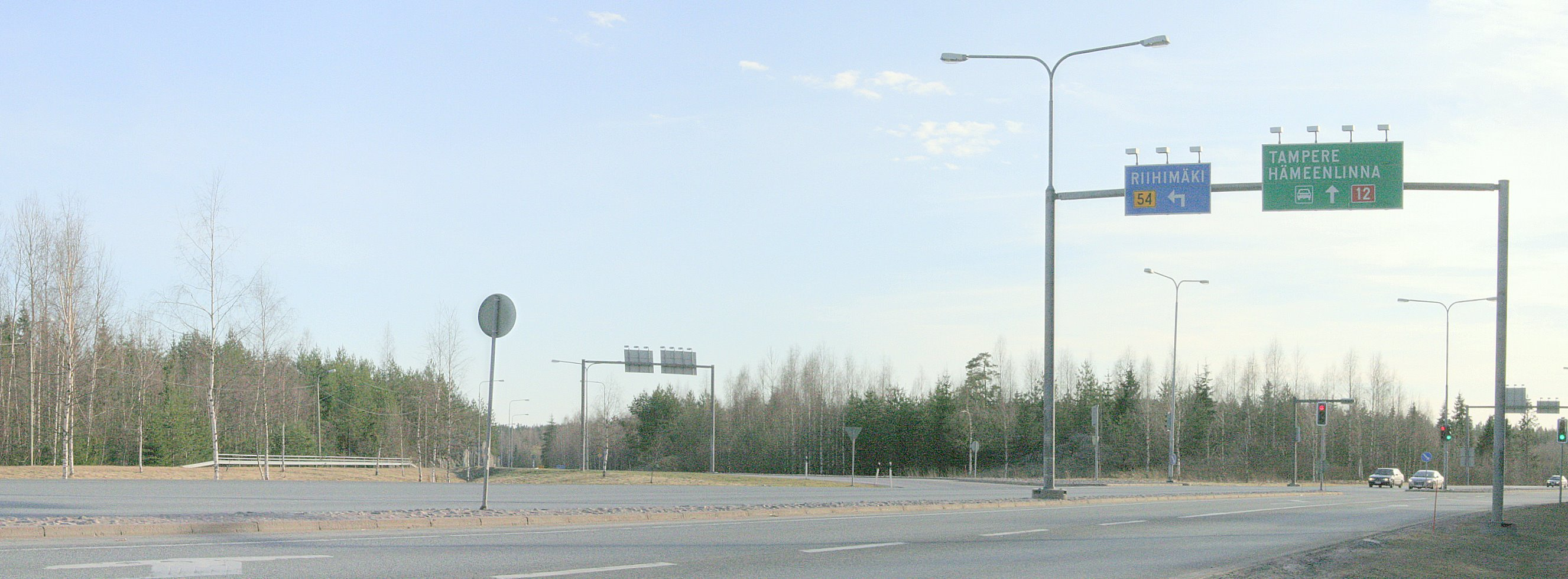 Road 54 The second class main road 54 in the municipality of Hollola in its beginning on road crossing of the first class main road 12. Nearby the crossing there will be build within years the new road, which leads the main road 12 to the southern suburbia of Lahti, Laune. That will be the third direction of the first class main road 12.